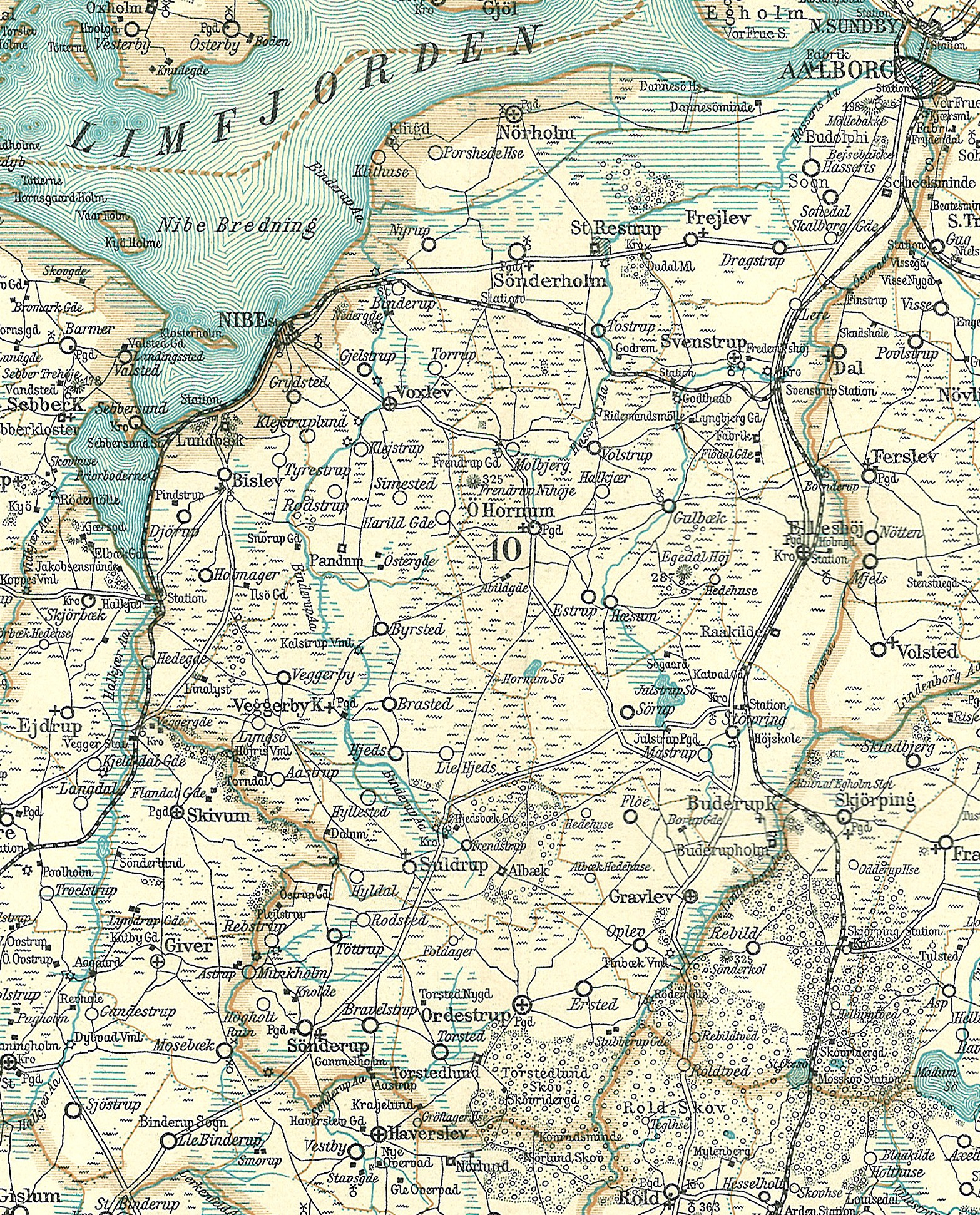 Map of Hornum Herred, Aalborg County in Denmark